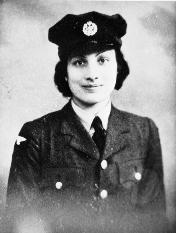 Hon. Assistant Section Officer Noor Inayat Khan (code name Madeleine), George Cross, MiD, Croix de Guerre avec Etoile de Vermeil. Noor Inayat Khan served as a wireless operator with F Section, Special Operations Executive.